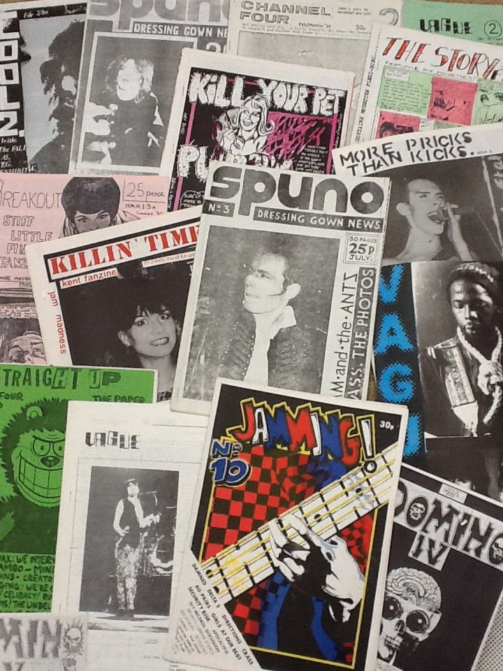 A Selection of UK Punk Fanzines including Vague, Spuno, Jamming, Kill Your Pet Puppy,Killin' Time, Domino IV etc